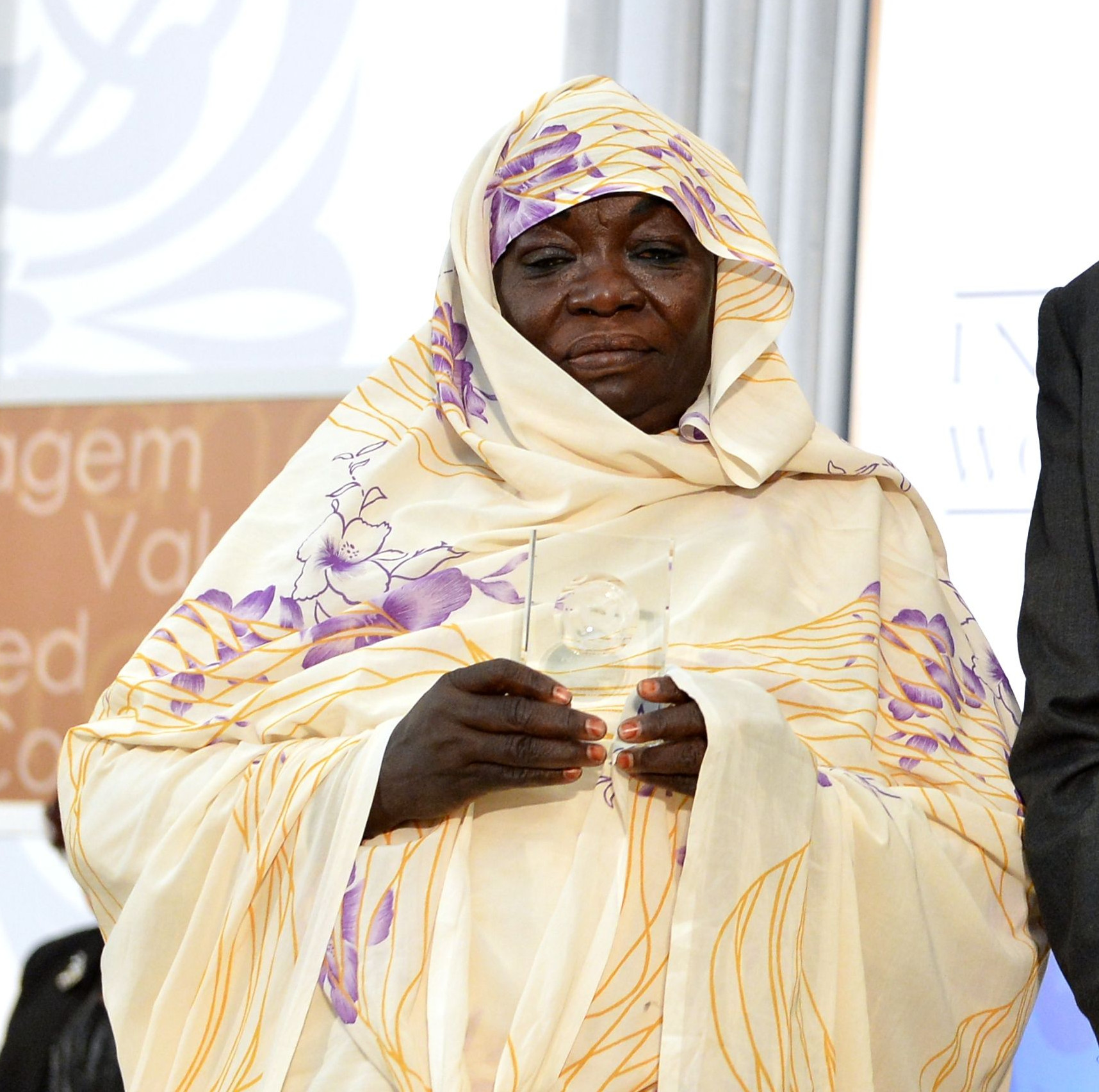 cropped pic - Awadeya Mahmoud of Sudan, Founder and Chair of the Women’s Food and Tea Sellers’ Cooperative and the Women’s Multi-Purpose Cooperative for Khartoum State, at the U.S. Department of State in Washington, D.C., on March 29, 2016. [State Department photo/ Public Domain]